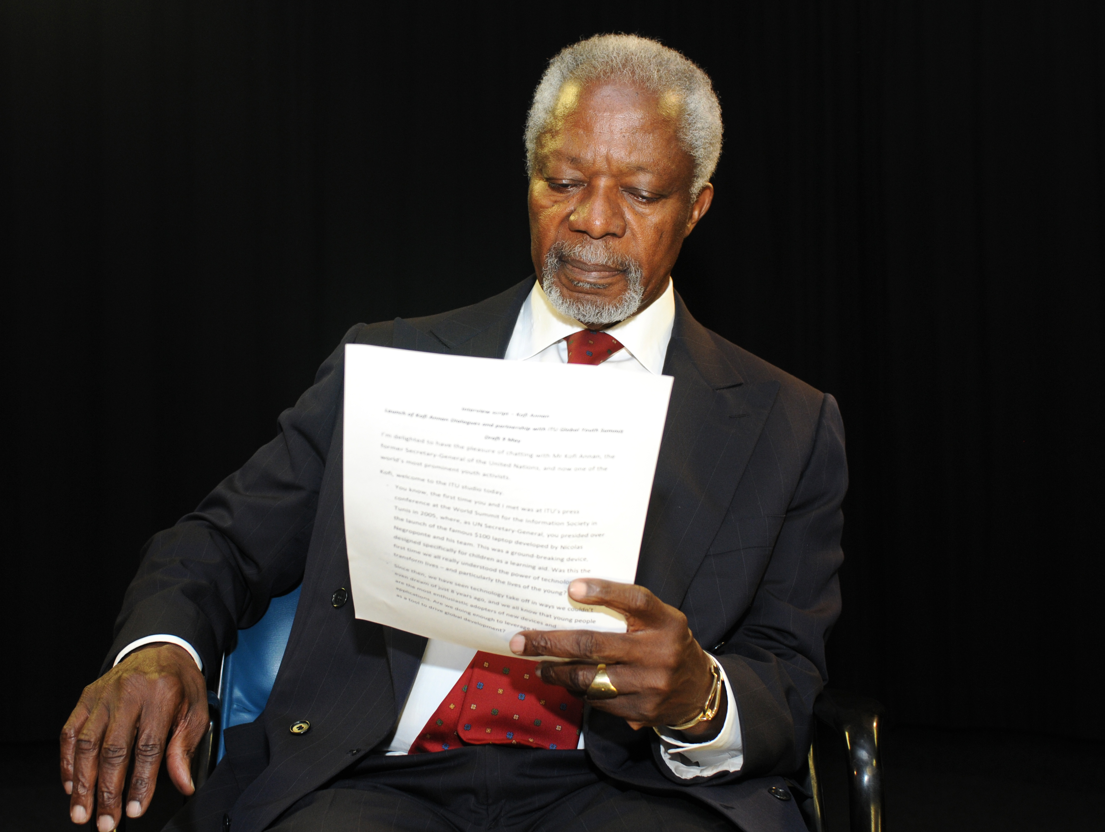 Mr Kofi Annan, Founder and Chairman, Kofi Annan Foundation; Interview preparations @ ITU TV Studio Day 3, 15 May 2013 ITU/ Claudio Montesano Casillas.